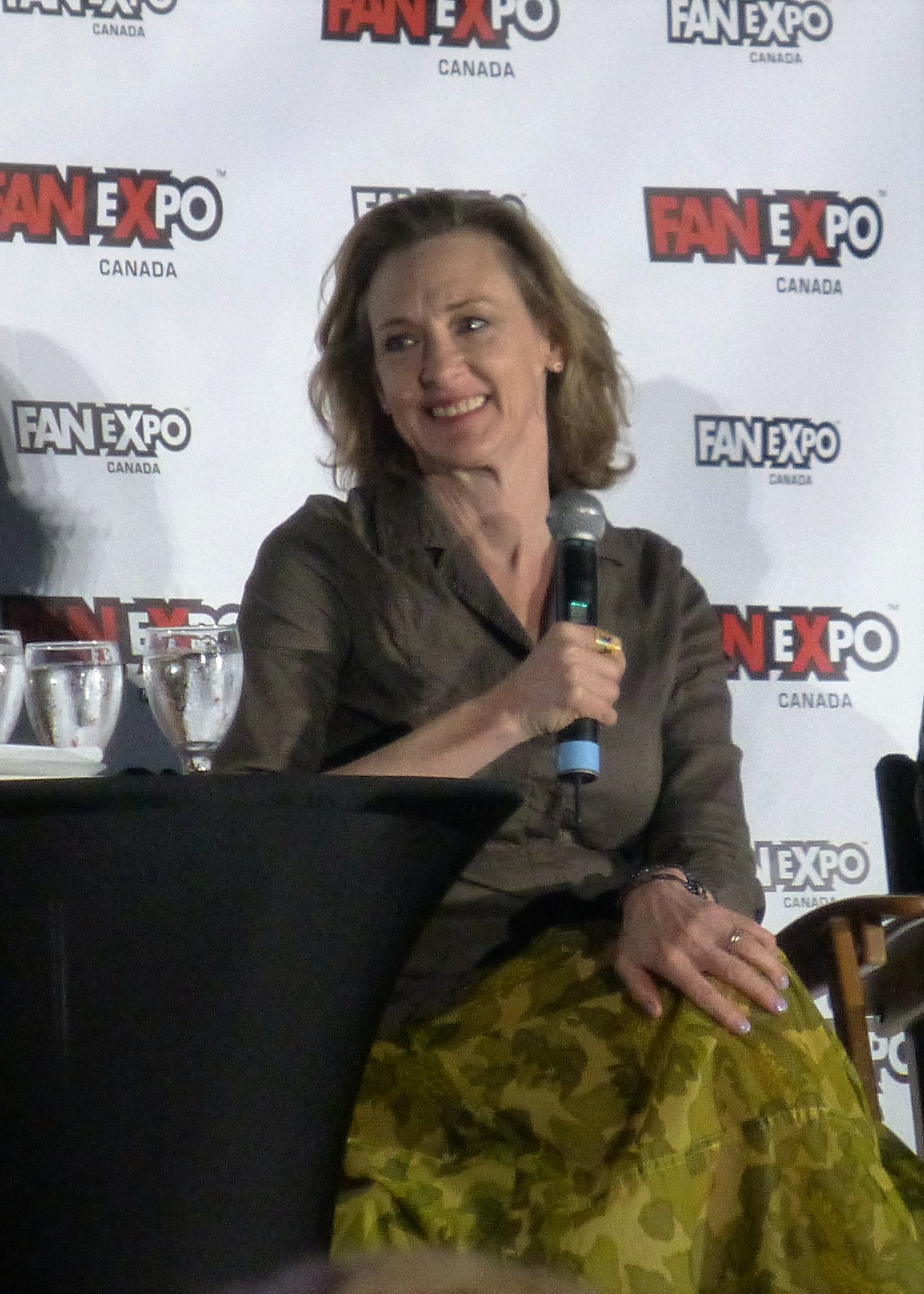 Joan and John Cusack Q&A Fan Expo Canada 2016